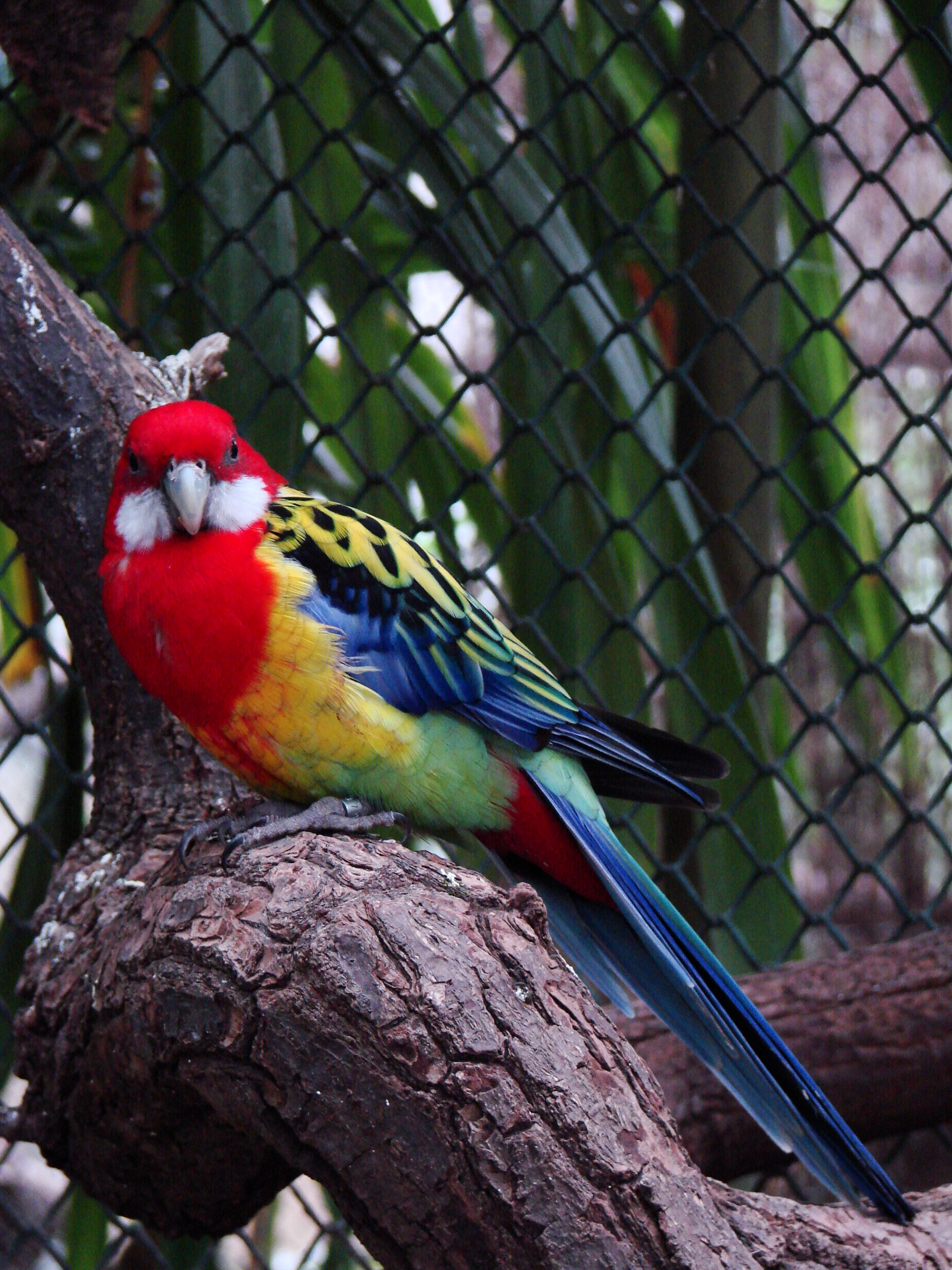 Animal species (bird) : Eastern Rosella (Wrocław zoo)